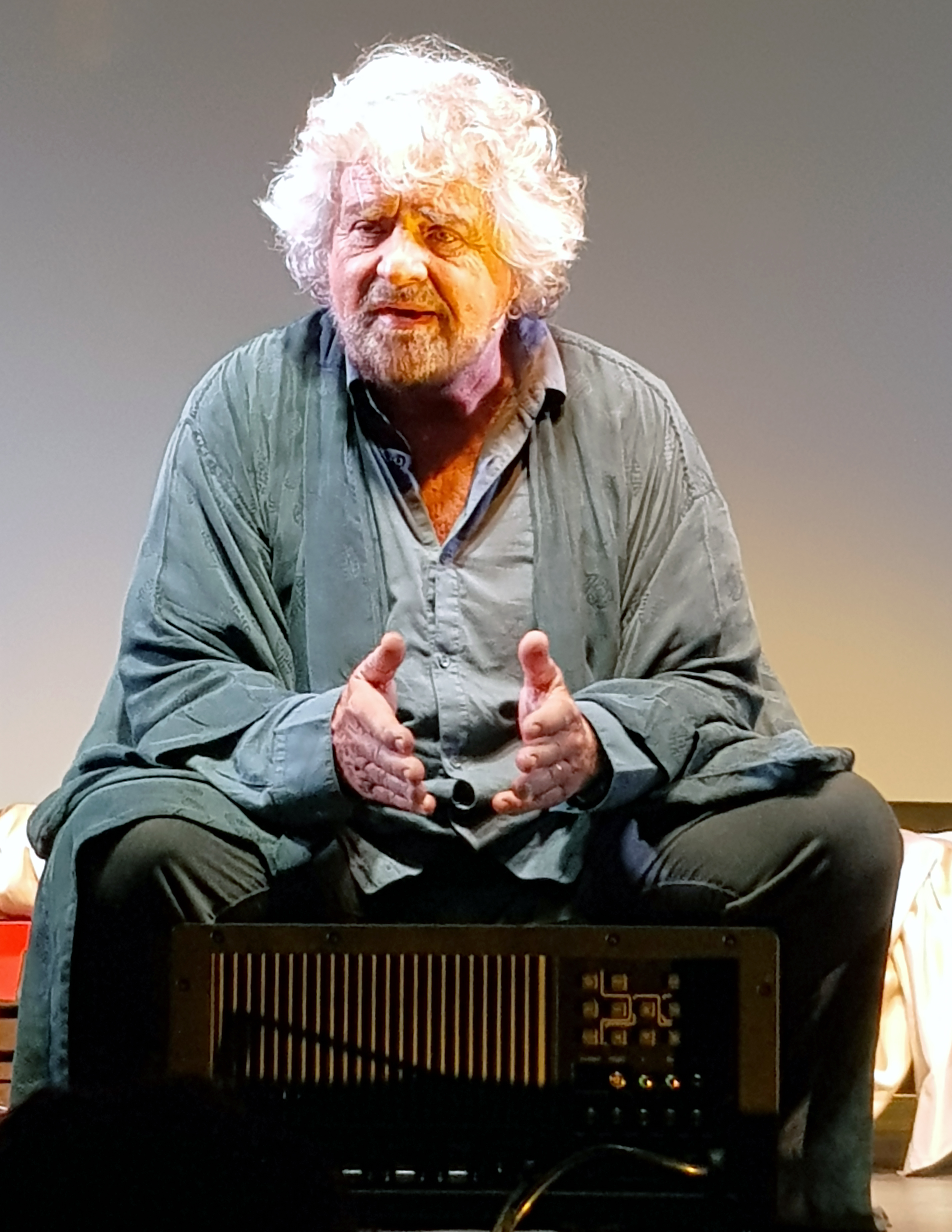 Beppe Grillo live in Rome March 24,2018